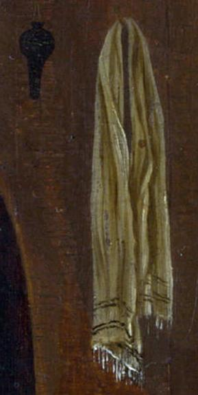 Towel on the wall in Antonello da Messina's painting St. Jerome in His Study